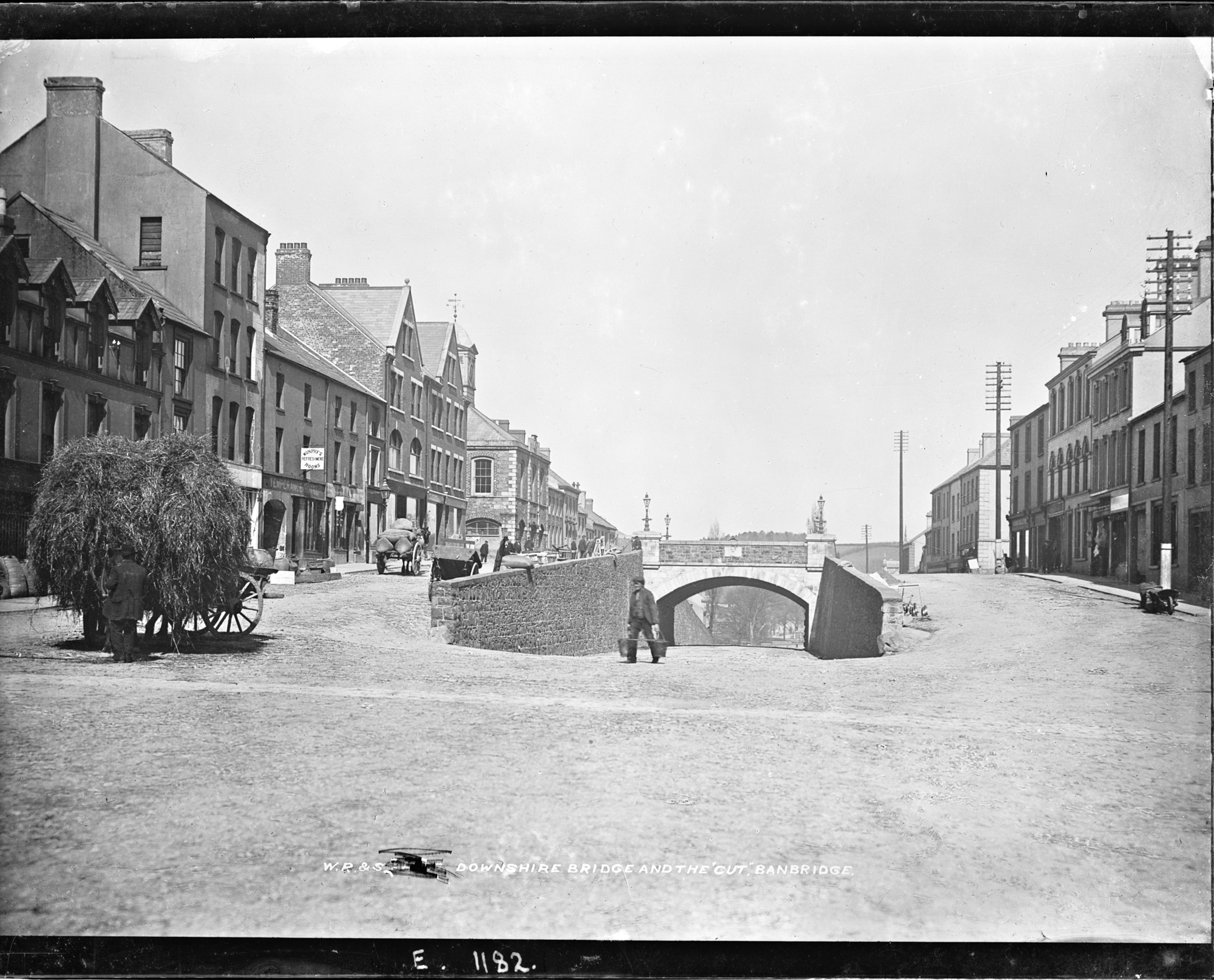 This lovely image of Banbridge seems to have all the hallmarks of a Robert French image but it is in the Eason Collection. Whoever the photographer was, he decided to do an Irish version of the "Hay Wain" as that hay wain there is way overloaded! Does that give us at least a time of year if not an actual date? As the location was already confirmed, today's discussion focused on the subject and date. On the latter, inputs on the date from [/photos/beachcomberaustralia/ beachcomberaus] (who reminds us that William Ritchie & Sons started publishing postcards like this from 1903), and [/photos/gnmcauley/ Niall McAuley] (who trawled more than a few street directories) have helped refine the range to a few years at the end of the first decade of the 20th century. On the subject, [/photos/20727502@N00/ guliolopez] and [/photos/91590691@N05/ Dún Laoghaire Micheál] illustrate that "the cut" was a 19th century engineering project - to help horse-drawn traffic through the town. At least some of which was of clearly overfilled carts :) Photographer: Unknown Collection: Eason Photographic Collection Date: Catalogue range c.1900-1939. Likely c.1907-1910 NLI Ref: EAS_1182 You can also view this image, and many thousands of others, on the NLI’s catalogue at